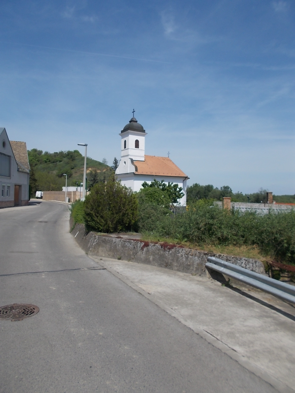 Saint Roch and Sebastian chapel built by Dávid Pummerschein, renovated around 1820-1830. From 1830 it was the burial place of the Vigyázó family. - from Rókus street Paks, Tolna County, Hungary.